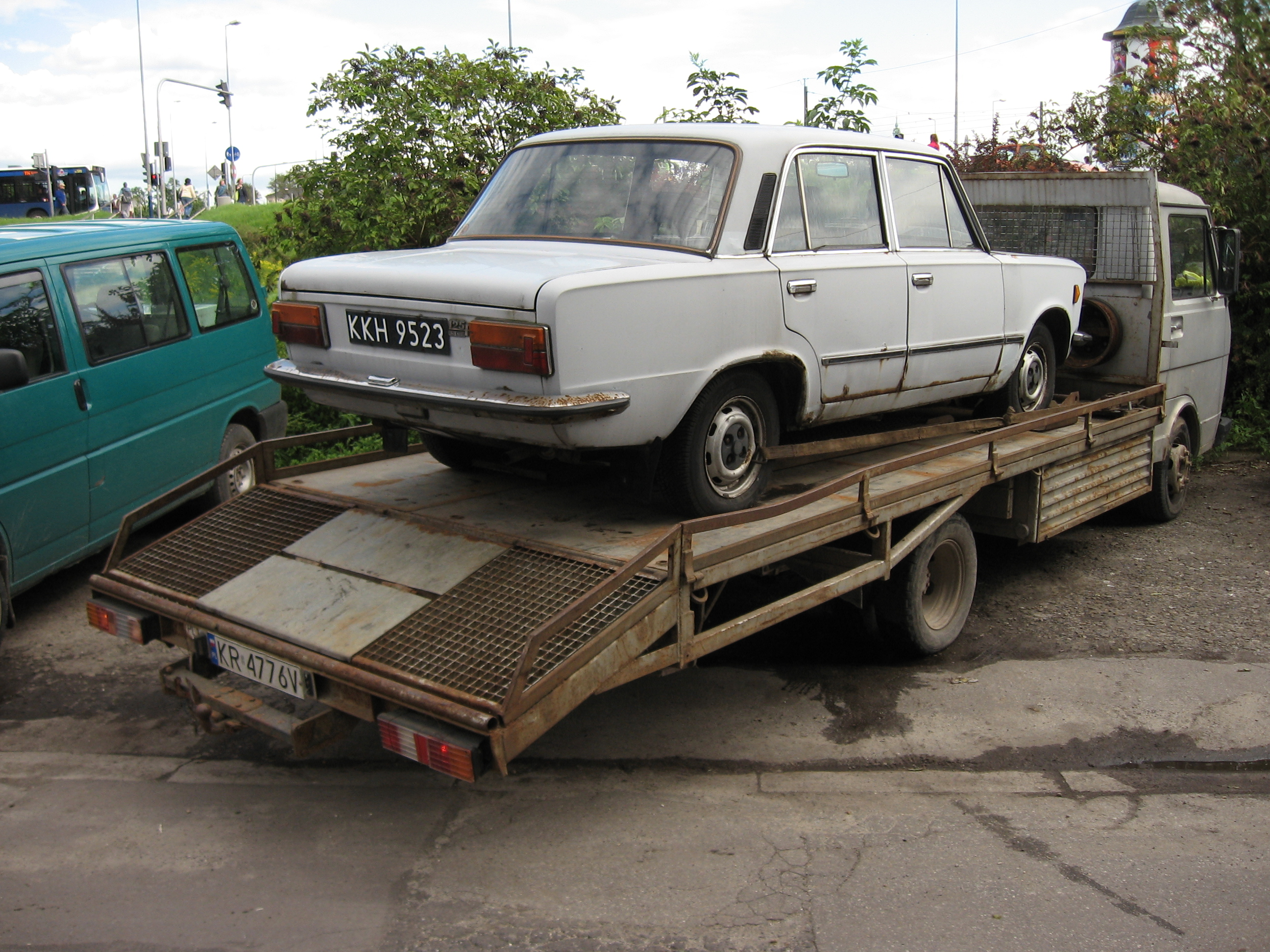 FSO 125p 1.5 ME car on a Volkswagen LT-based roadside assistance truck on Jana Kilińskiego street in Kraków, Poland.